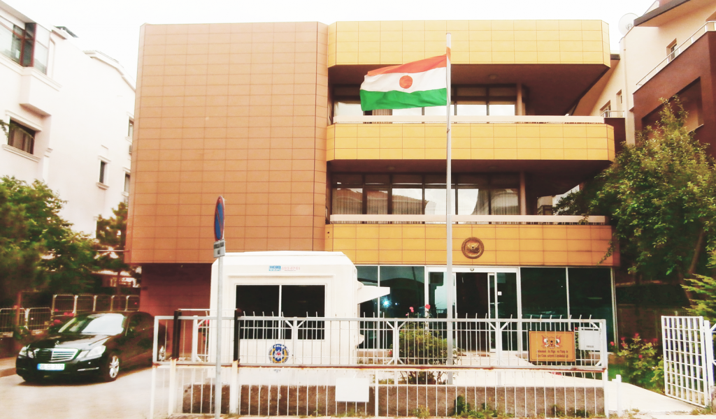 Building of the Embassy of Niger in Turkey